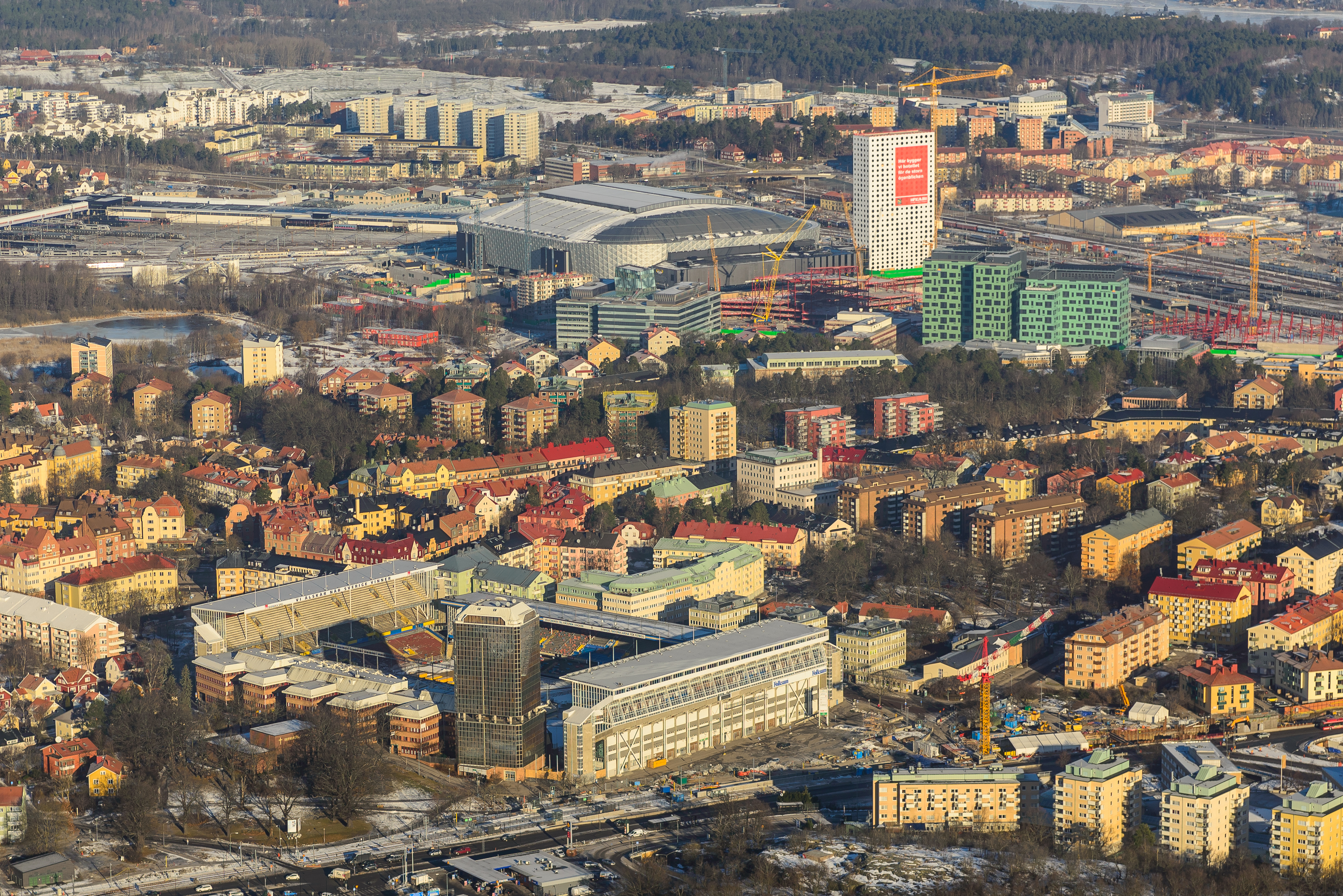 Råsunda, Solna Municipality in Stockholm County, Sweden. In the foreground Råsunda Stadium and in the background the new Friends Arena. Råsunda was Sweden's national football stadium 1937-2012. In November 2012 it was closed down and replaced by the new Friends Arena about 1 km from Råsunda Stadium. Flats and offices will be built on the old ground.